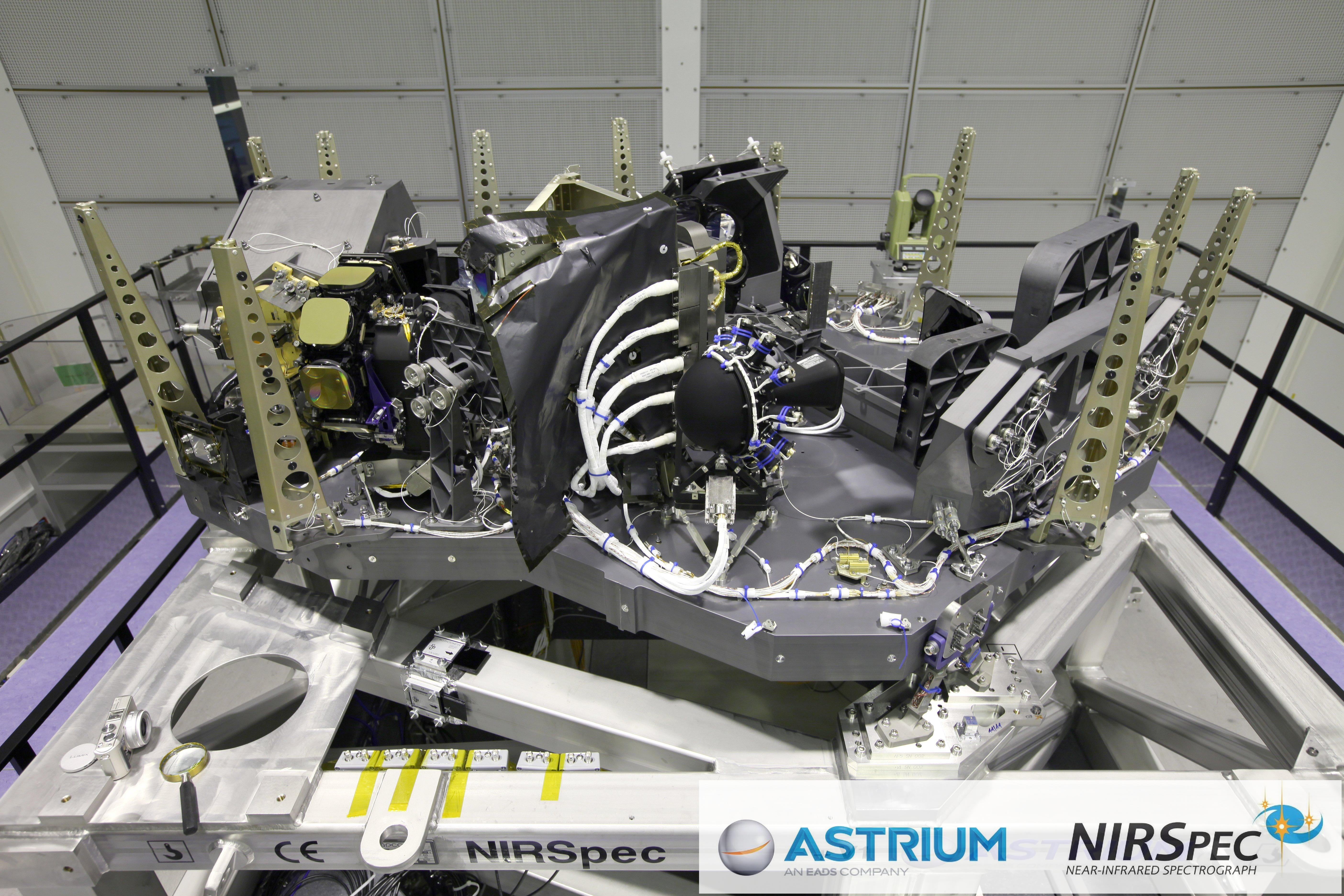 NIRSpec without Optical Assembly Cover